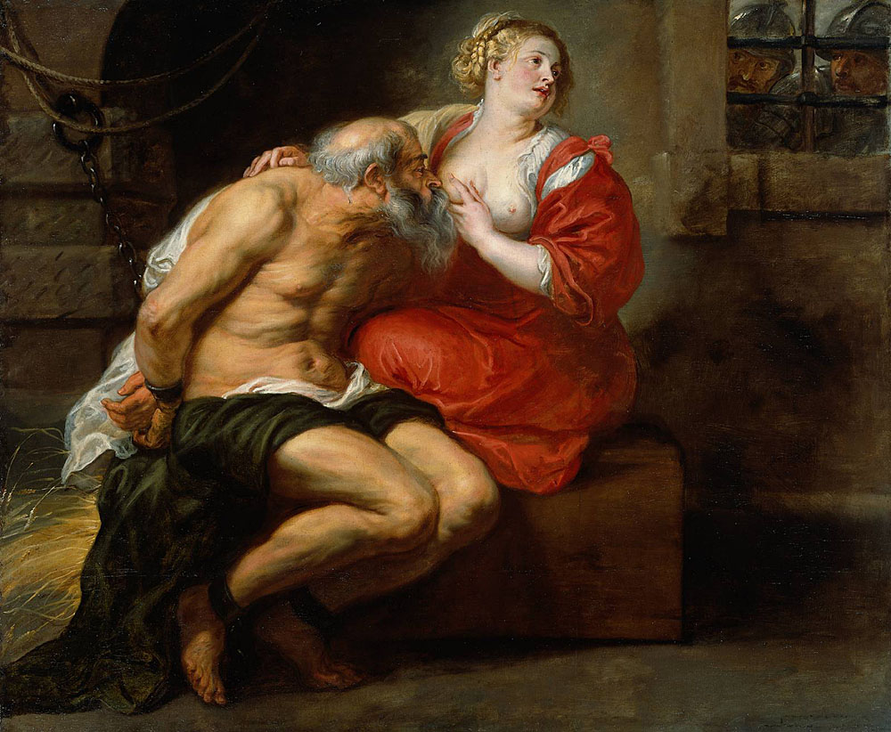 Roman Charity